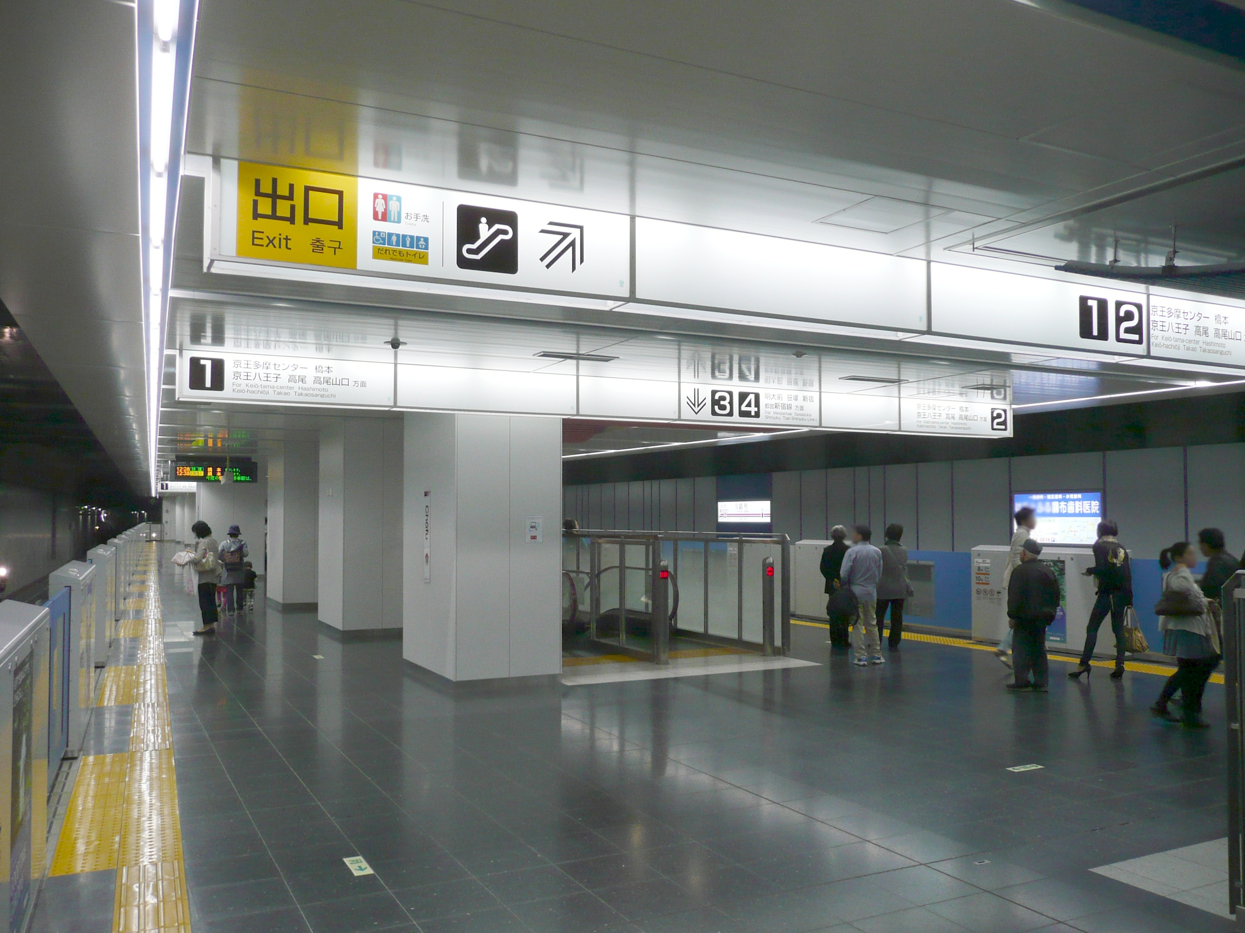 Platforms of Chōfu Station (Tokyo)